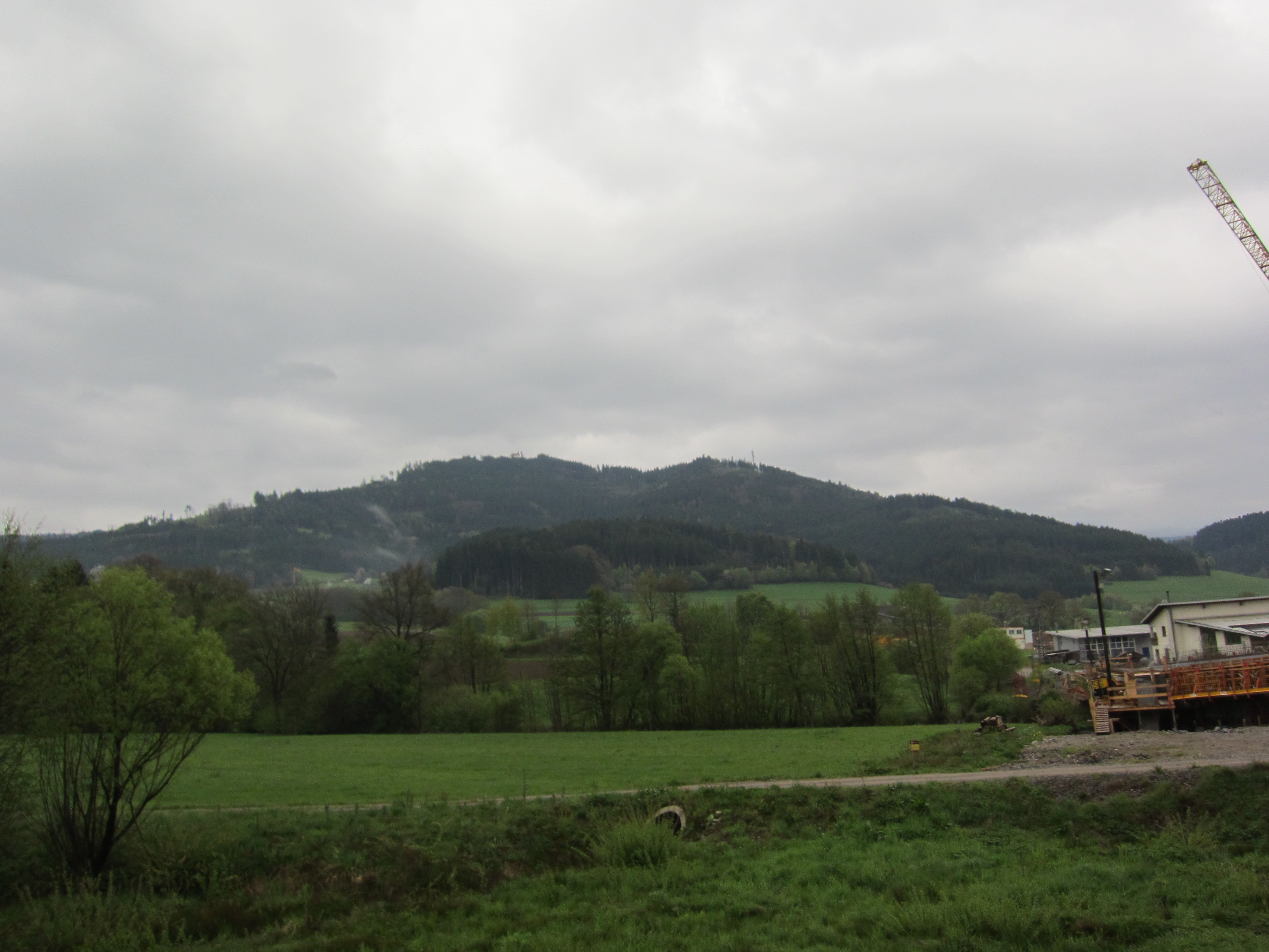 Hörnleberg with pilgrimage church Unserer Lieben Frau vom Hörnleberg, view from northwest